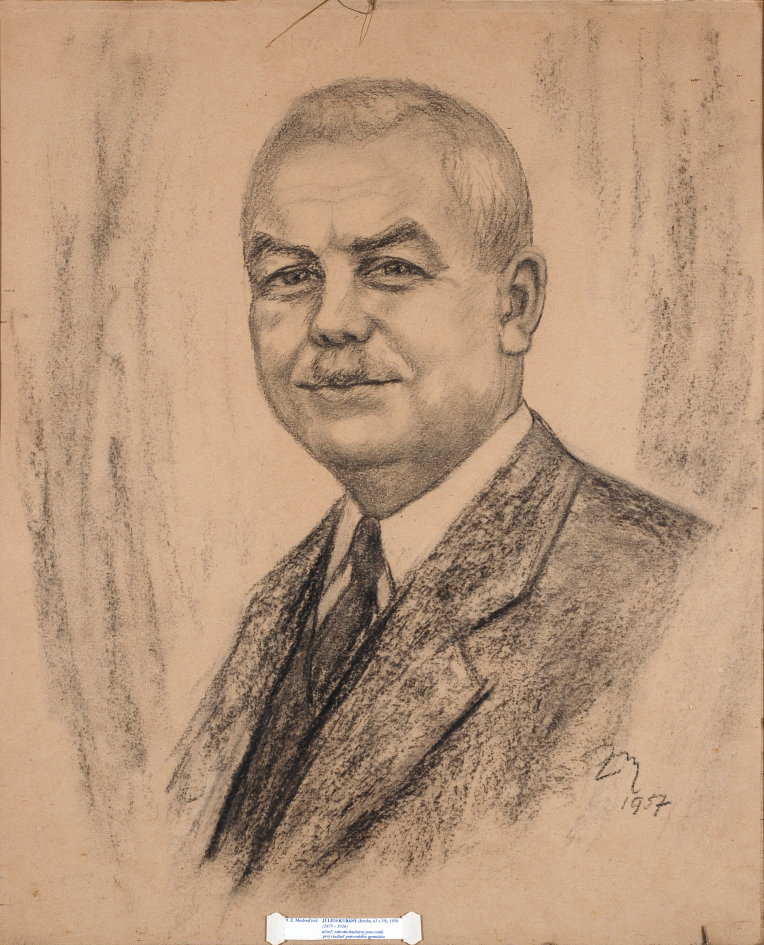 A portrait of Július Kubány (1875-1926), Vojvodinian Slovak teacher, national activist and first principal of Gymnasium in Bački Petrovac (Vojvodina, Serbia). Author Zuzka Medveďová. Inventory number 93. Srpski (latinica): Portret Julijusa Kubanjija (1875-1926), slovačkog učitelja, nacionalnog radnika i prvog direktora gimnazije u Bačkom Petrovcu. Autorka Zuska Medveđova. Inventarski broj 93.